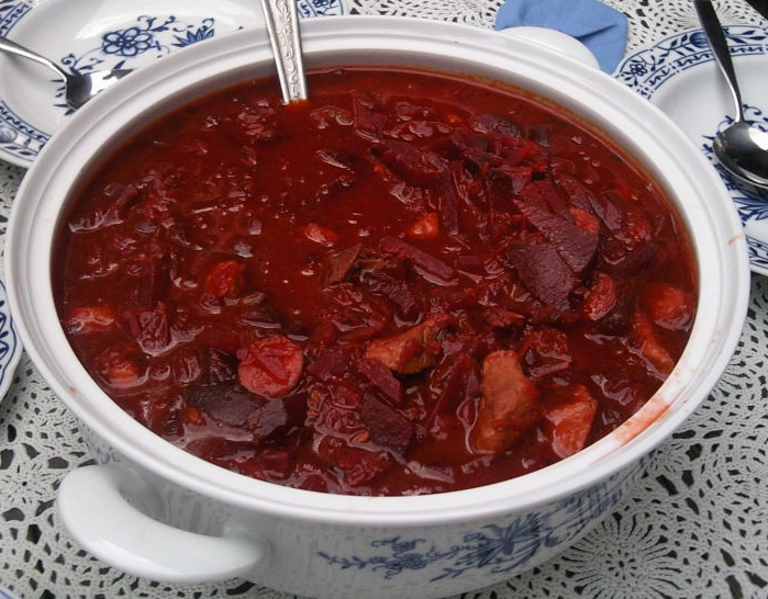 Russian Borsch